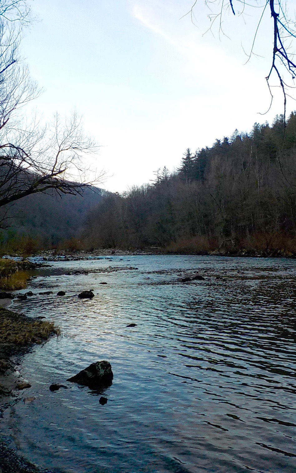 Upstream view of Kupa river at Severin, Croatia.